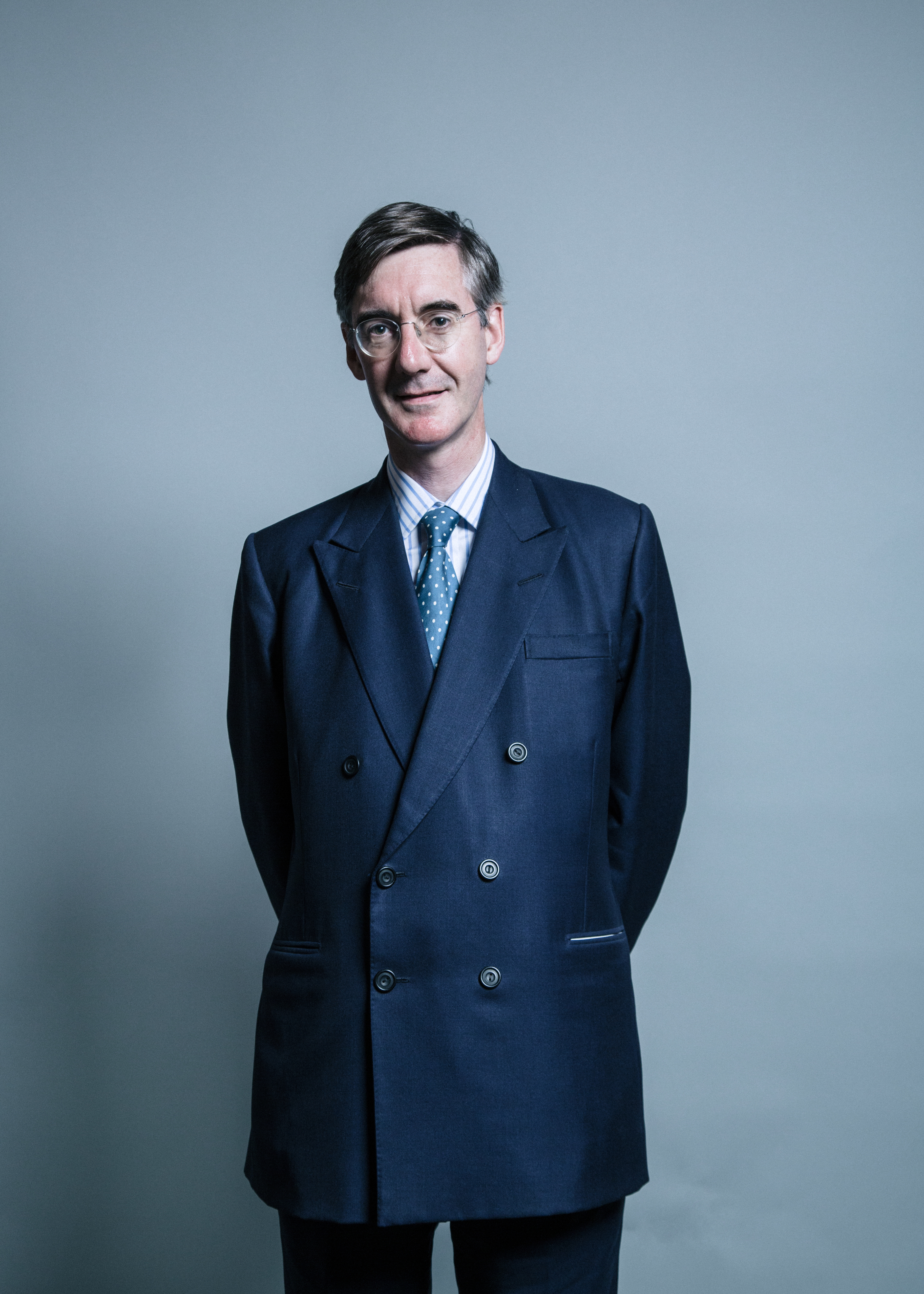 The Honourable Jacob William Rees-Mogg, Member of Parliament for North East Somerset